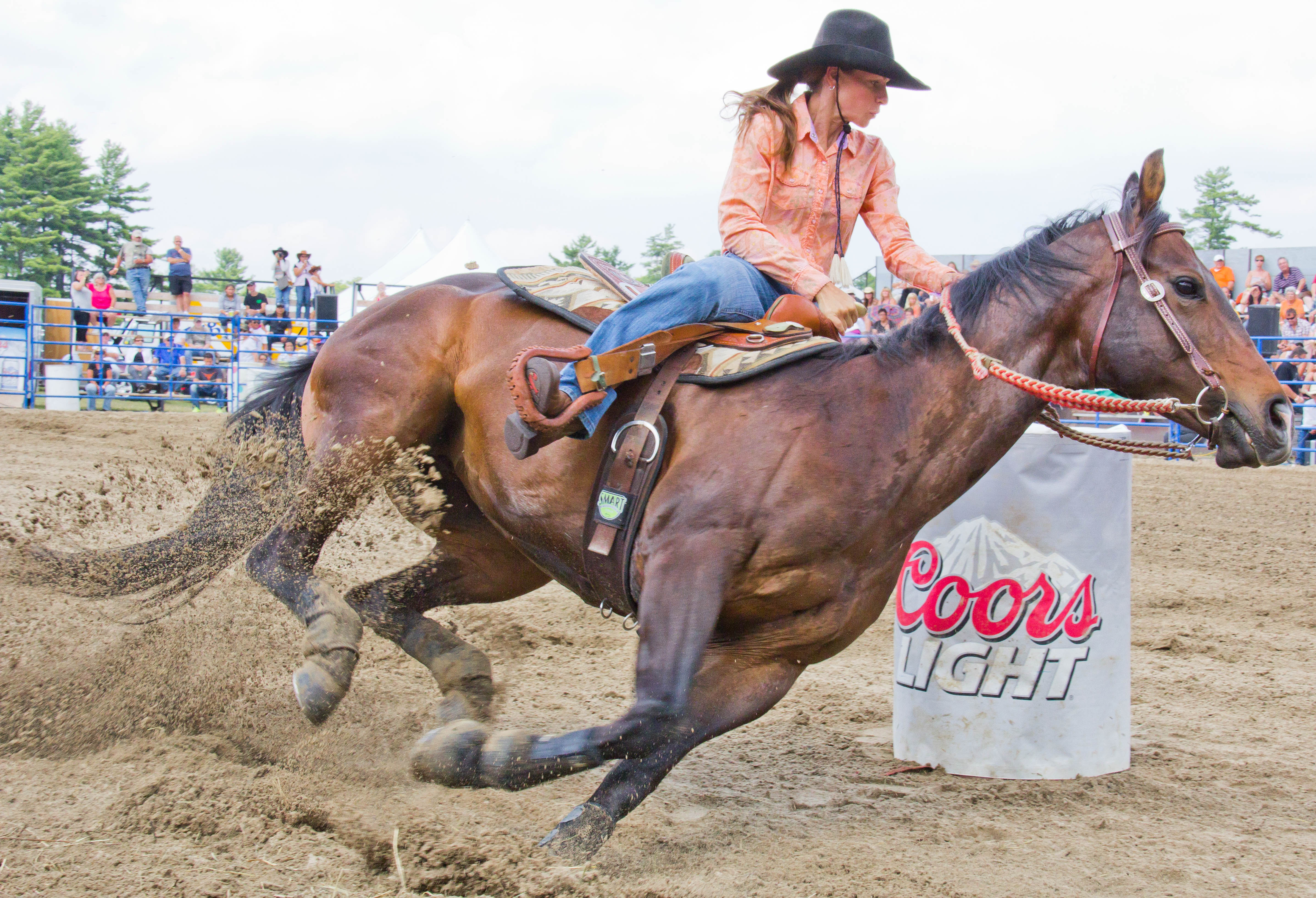 Spencerville Stampede, July 2014